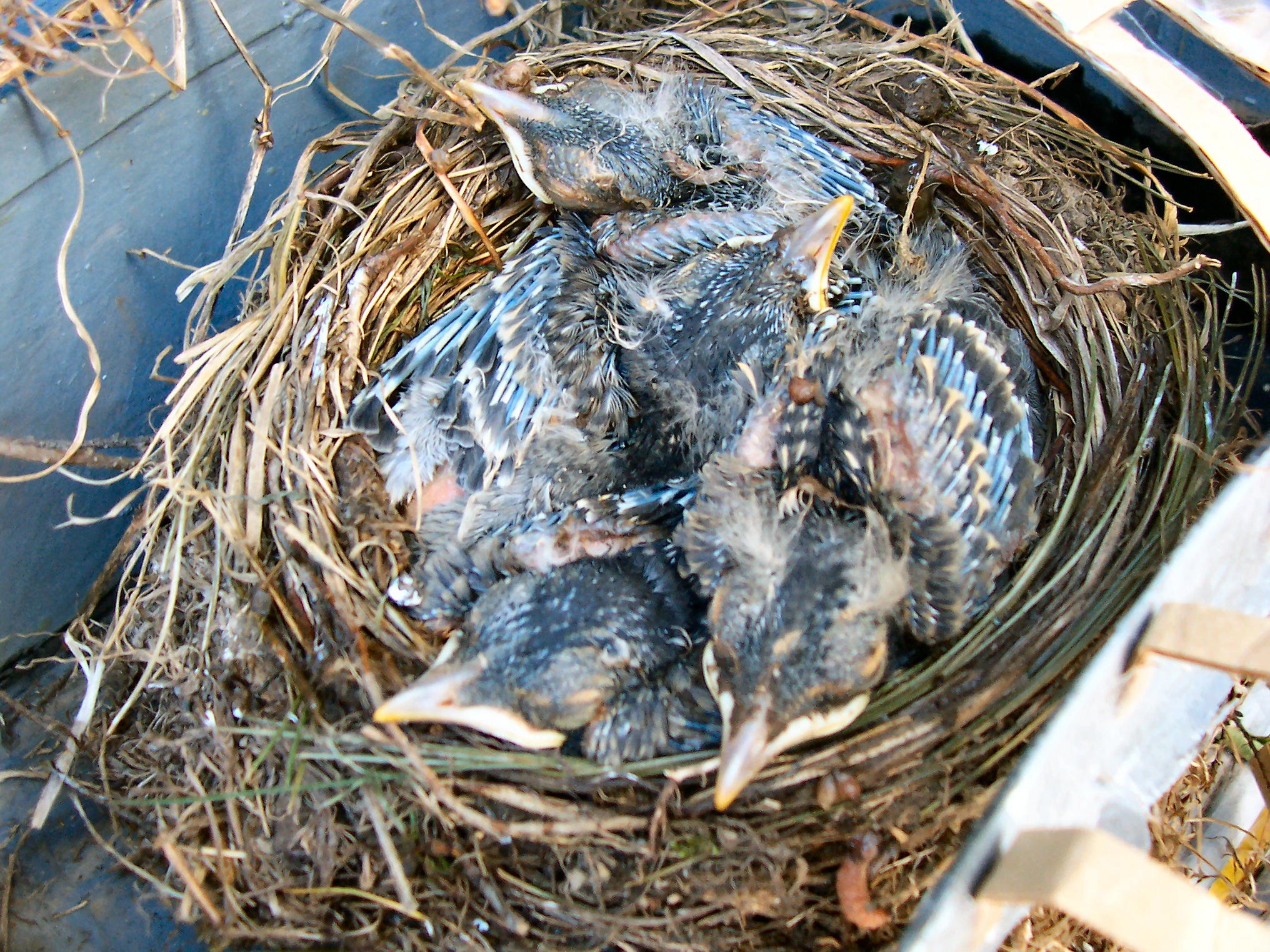 Taken in a private residence in Briarcliff Manor, New York, by Andrevan 033 sec (1/30) Aperture: f/2.8 Focal Length: 5.6 mm Exposure Bias: 0/1000 EV Flash: Flash did not fire